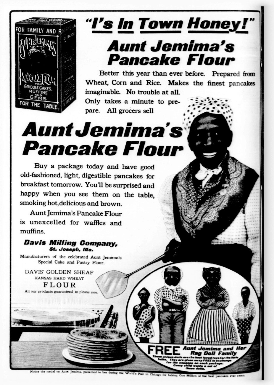 Ad for Aunt Jemima pancake flour, from the November 7, 1909 edition of the New-York tribune.